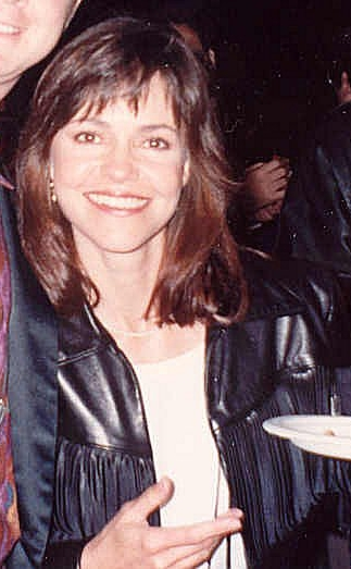 Actress Sally Field during the 62nd Academy Awards, in March 26, 1990.